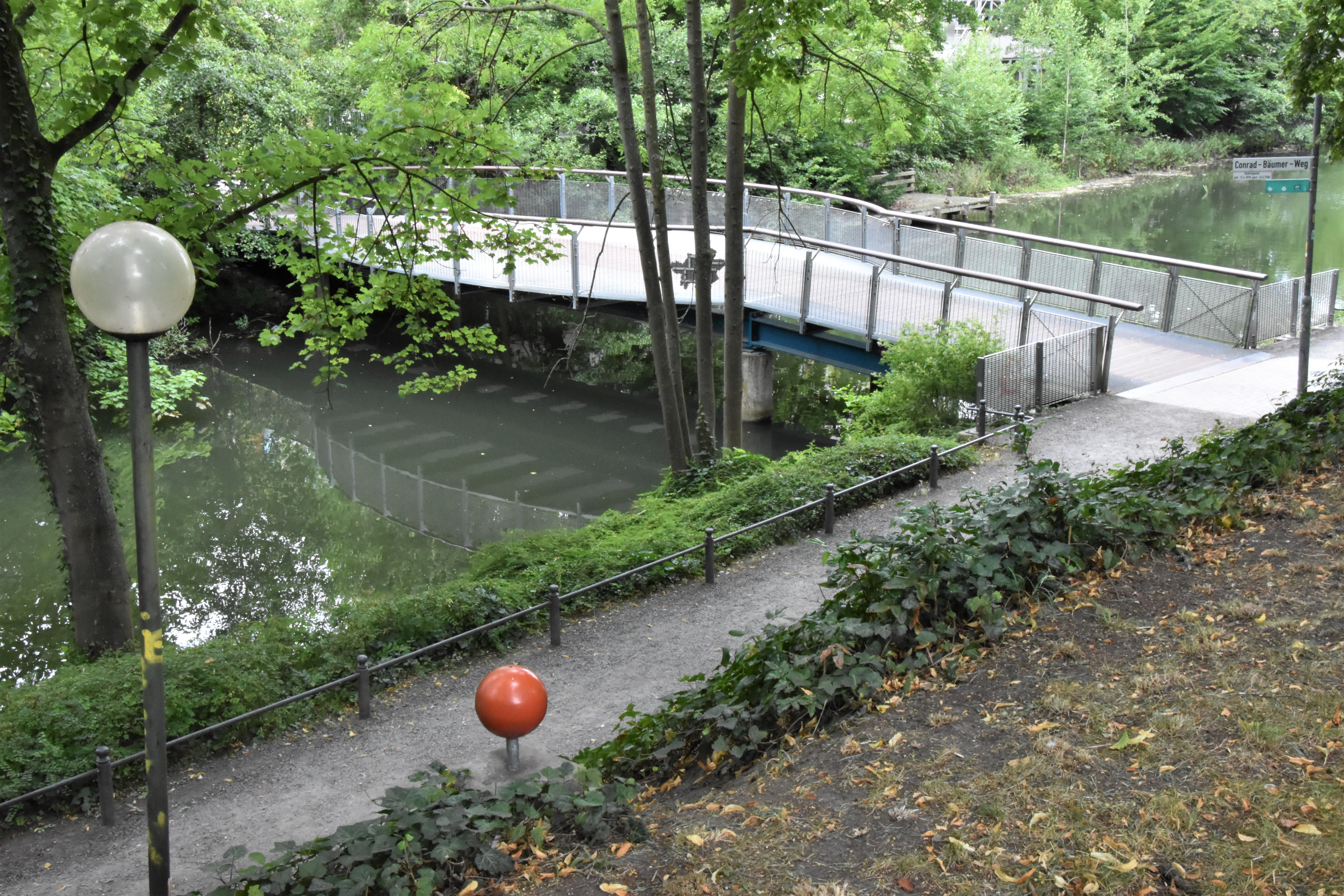 Geographical centre of Osnabrück